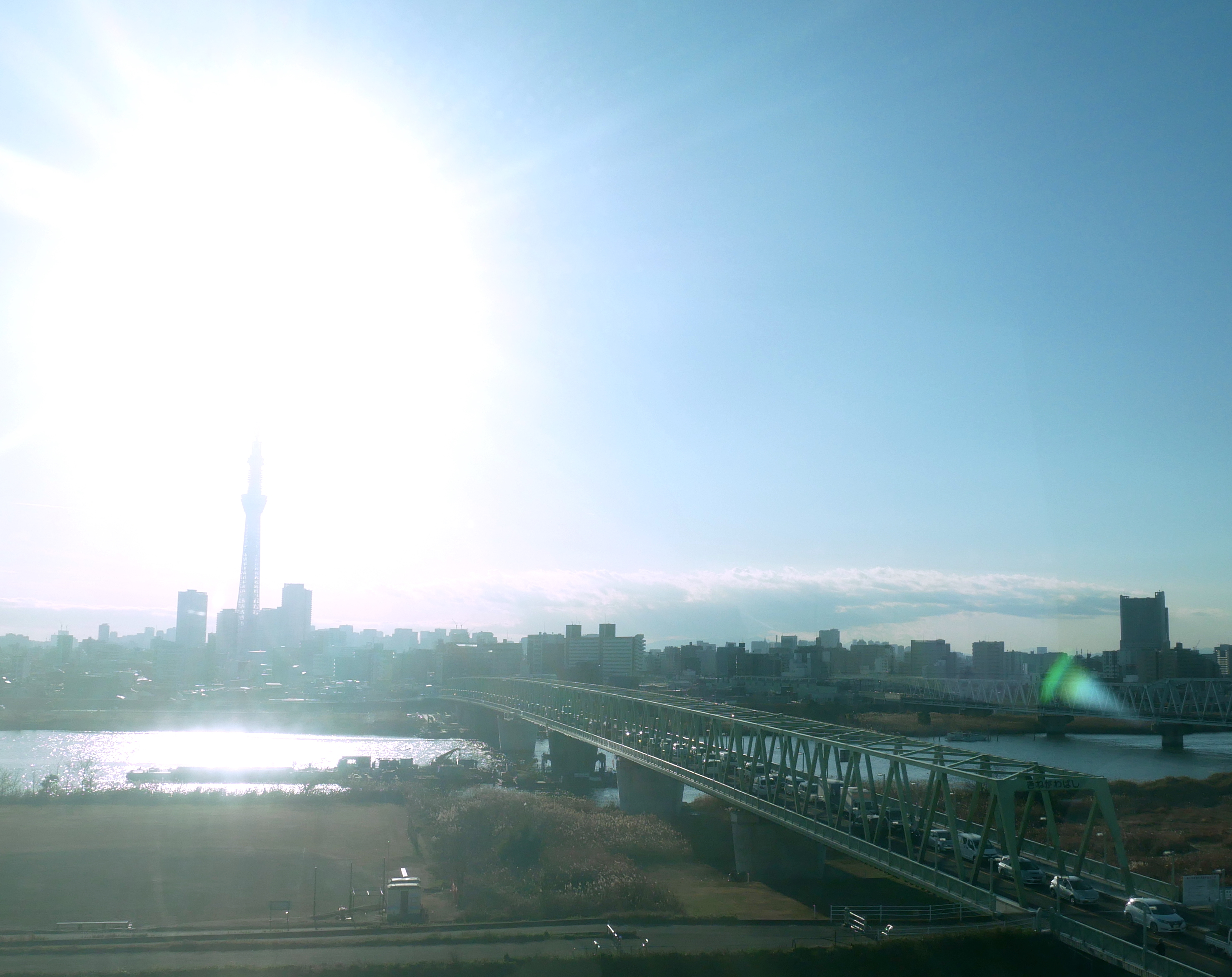 木根川橋 (Kinegawa Bridge) Panasonic Lumix DMC-GX7 Mark II